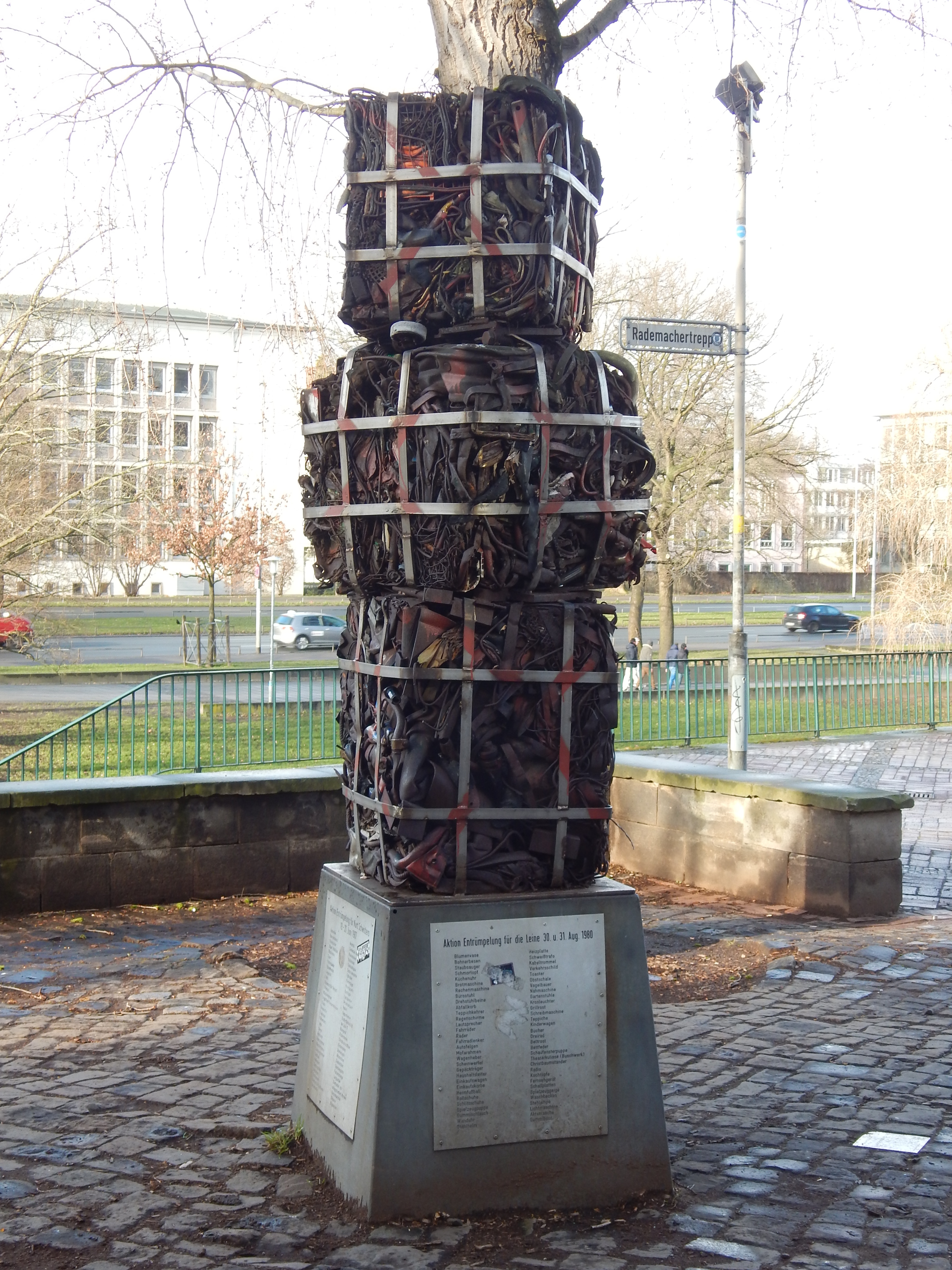 sculpture "Leine-Entrümpelung" by János Násdasy, 1980, 1987, 1990, Hannover